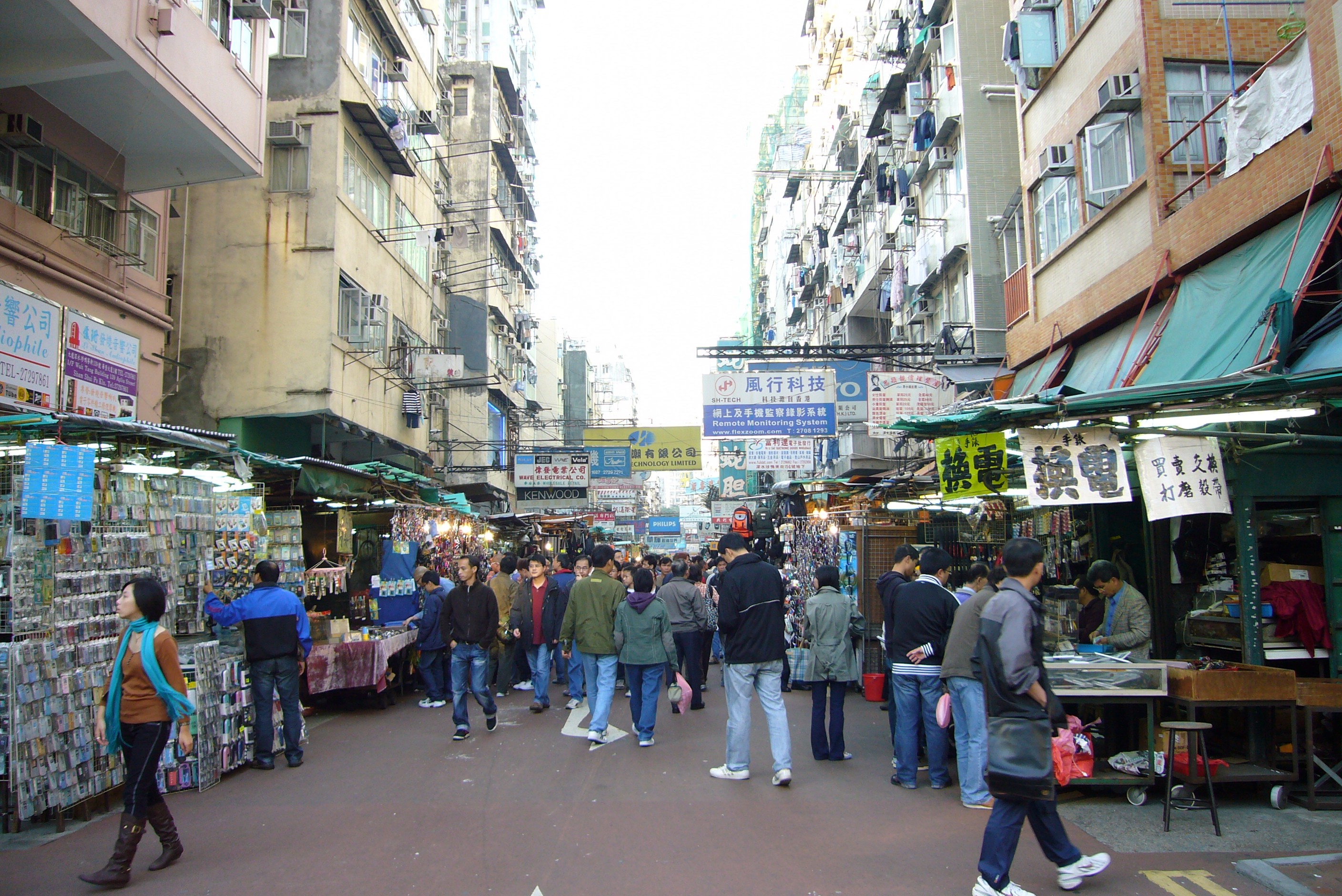 Apliu Street(Nam Cheong St. Side)